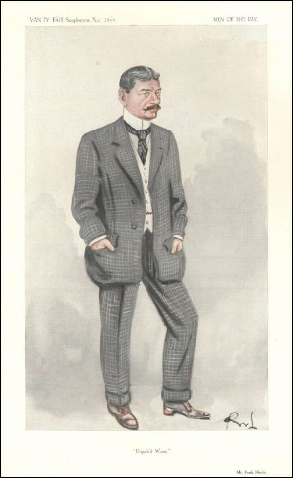 Men of the Day No.2349: Caricature of Mr Frank Harris. Caption reads: "Unpath'd Waters"